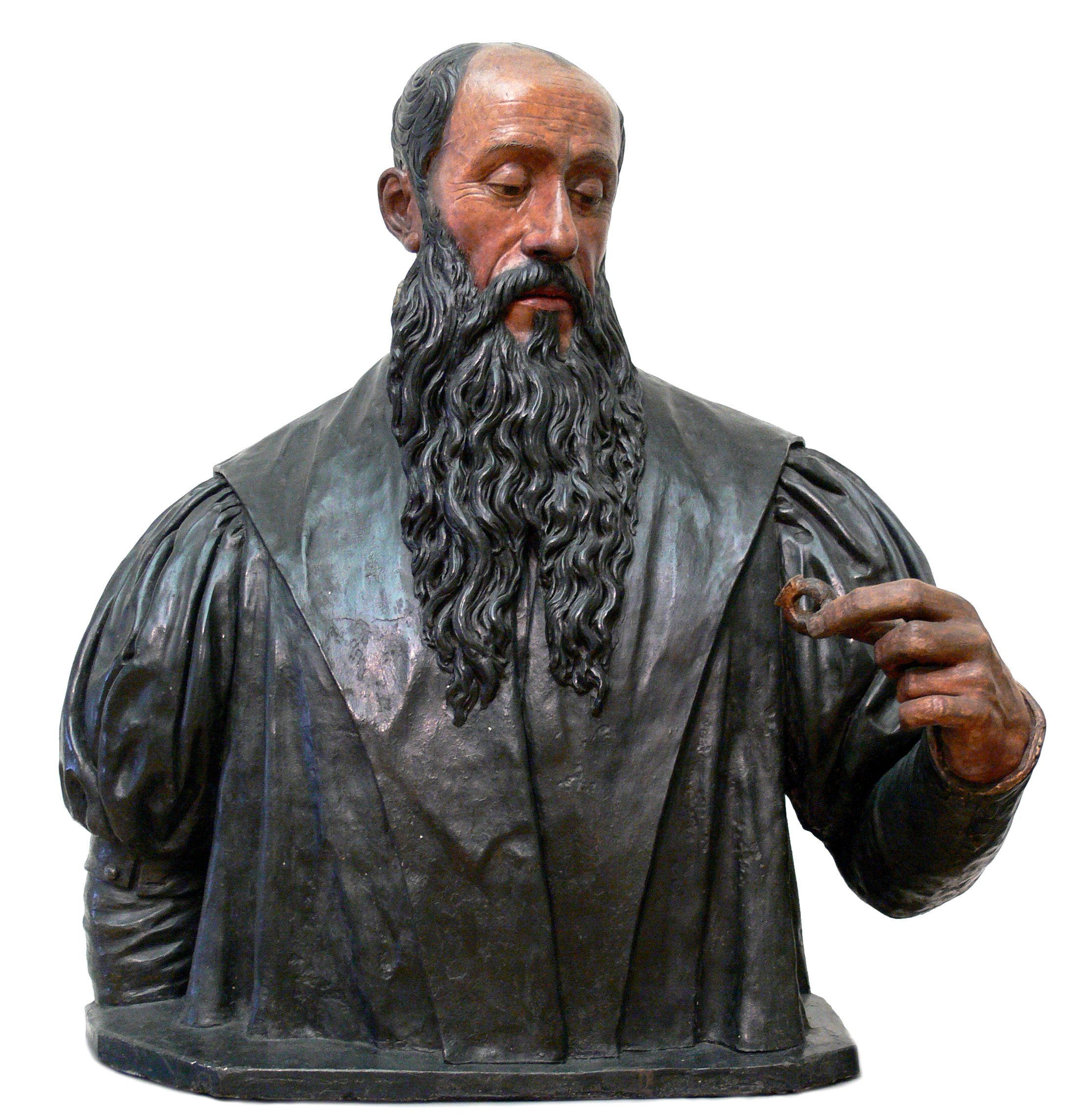 Johan Gregor van der Schardt: Bust of the Nuremberg patrician Willibald Imhoff the Elder, Nuremberg 1470, terracotta, original colours. Skulpturensammlung (inv. no. 538, acquired in 1858, Alexander von Minutoli collection), Bode-Museum Berlin.